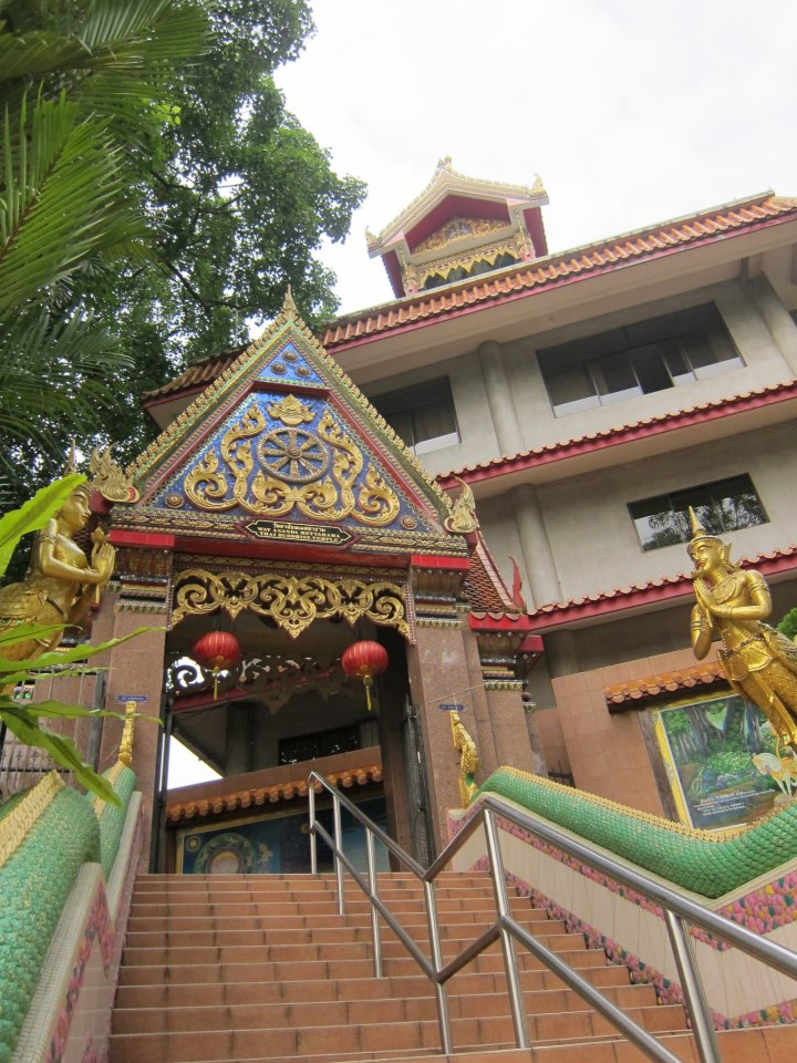 Singapore's oldest Theravada Temple